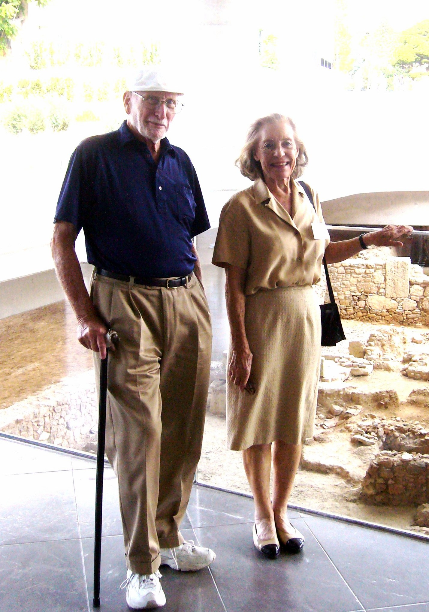 Donald and Bette Prell, Athens 2014